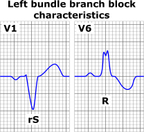 Description: The characteristic wave patterns of a typical left bundle branch block as seen in an ECG. Wide QRS complexes are present and there's T wave inversion in lead V6 which is normal in this condition. Below each QRS complex is its designation (rS and R) according to nomenclature. Source: I drew this image in XaraX¹ using my own knowledge and several sources for checking whether I drew the image correctly. Date: 24 April 2007 Author: A. Rad Permission: See licensing info: GFDL-self Other versions: If you require other versions (or have other comments), contact me on my wikipedia user talk page (A. Rad) Unfortunately, XaraX¹ can not export to svg.